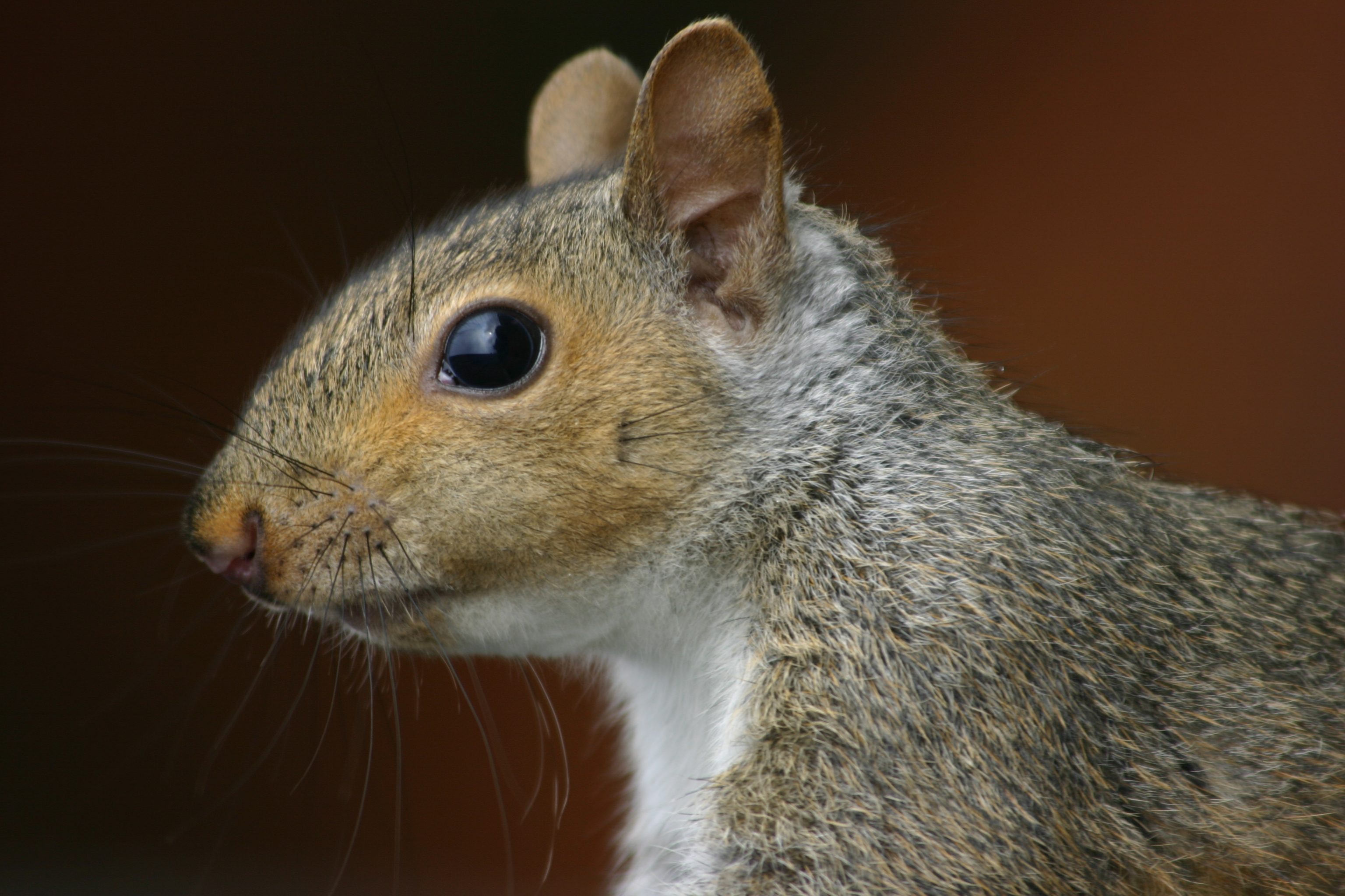 An Eastern Gray Squirrel, Sciurus carolinensis, perching on my rooftop. Taken with a Canon EF 70-300/4-5.6 IS USM while leaning out the balcony with a foot hooked under the rail.